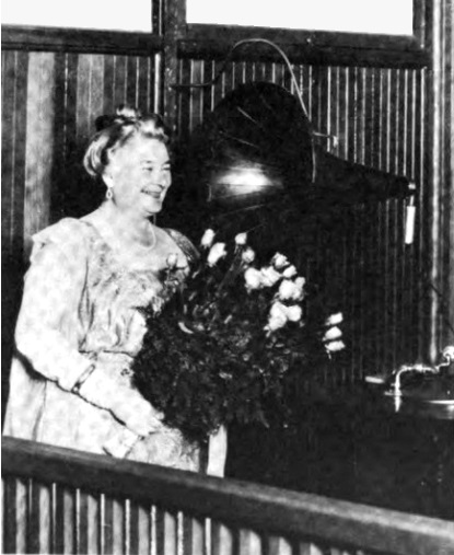 On November 22, 1921, Ernestine Schumann-Heink made her debut radio broadcast over amateur station 6FI, operated by Paul Oard of the Portable Wireless Telephone Company. The broadcast took place from the Stockton (California) Record newspaper offices. (The next month 6FI was relicensed as broadcasting station KWG in Stockton).